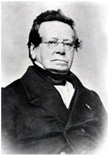 Rehuel Labatto (1797-1866), Dutch mathematician